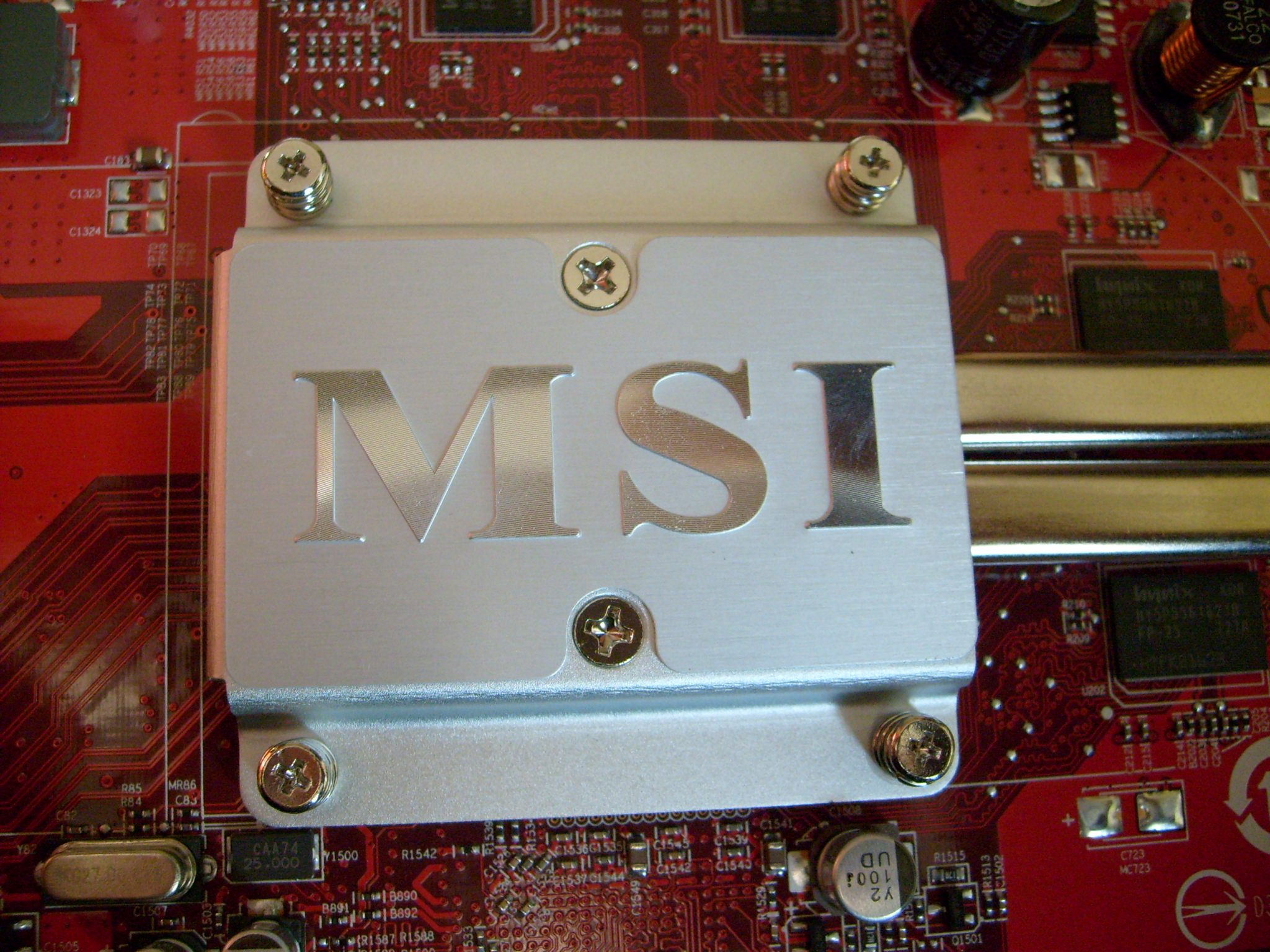 Logo of Micro-Star International on a Radeon HD 2600 Pro